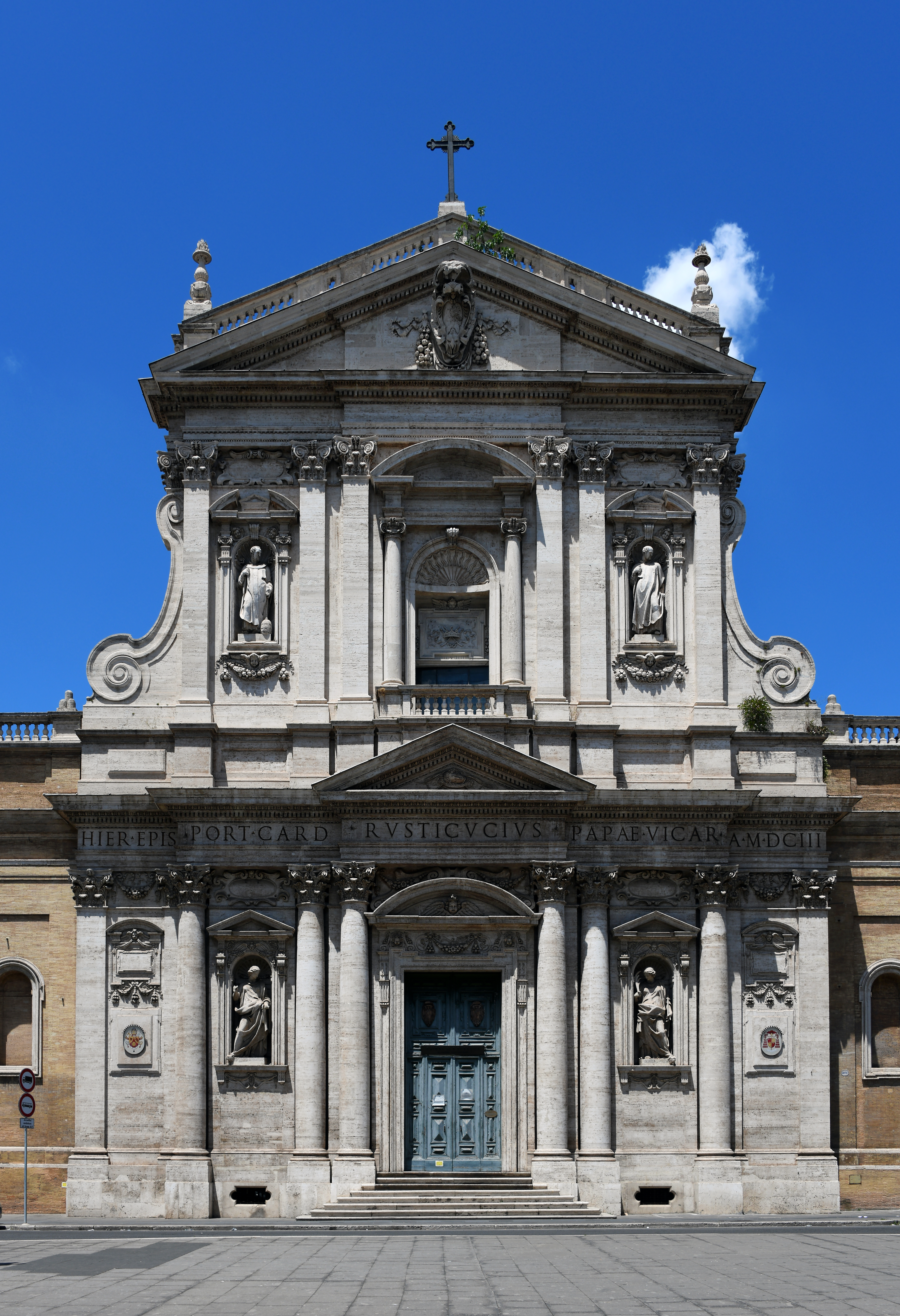 Santa Susanna (Rome) - Front